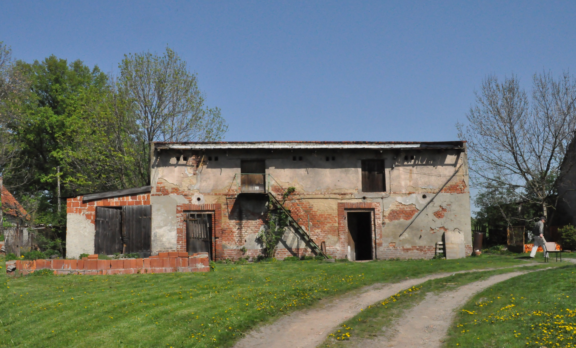 Private buildings